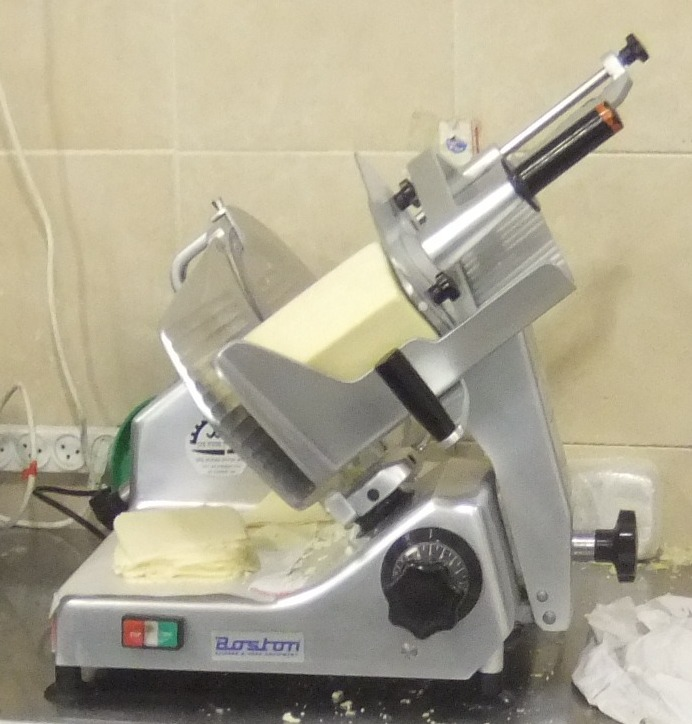 Cheese slicer